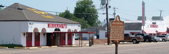 Part of the Middendorf sequence of three restaurants, Manchac (Akers), Louisiana, 2011.